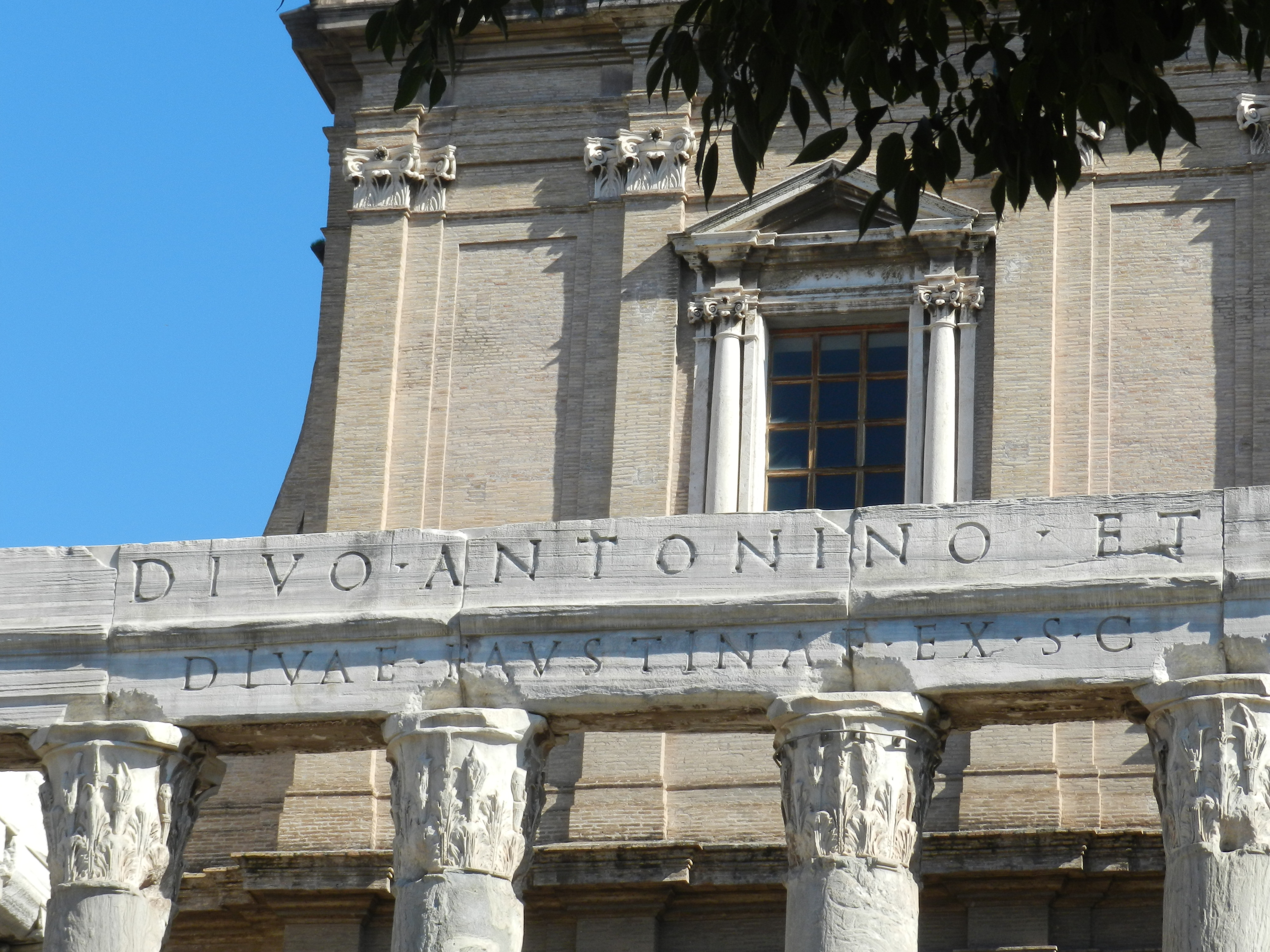 Temple of Antoninus and Faustina, Roman Forum, Rome, Italy